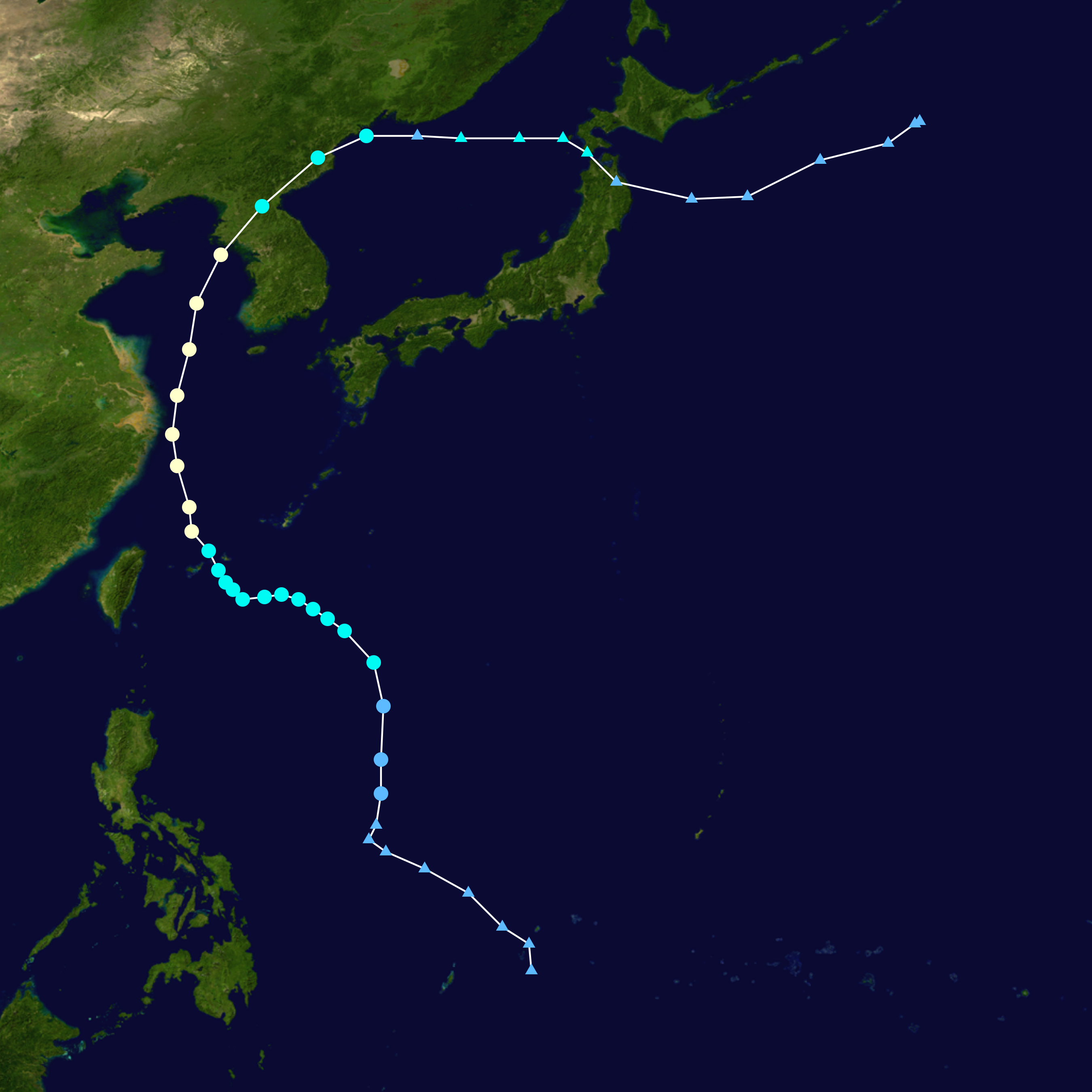 Track map of Typhoon Prapiroon of the 2000 Pacific typhoon season. The points show the location of the storm at 6-hour intervals. The colour represents the storm's maximum sustained wind speeds as classified in the Saffir–Simpson scale (see below), and the shape of the data points represent the nature of the storm, according to the legend below. Saffir–Simpson scale Tropical depression≤38 mph≤62 km/h Category 3111–129 mph178–208 km/h Tropical storm39–73 mph63–118 km/h Category 4130–156 mph209–251 km/h Category 174–95 mph119–153 km/h Category 5≥157 mph≥252 km/h Category 296–110 mph154–177 km/h Unknown Storm type Tropical cyclone Subtropical cyclone Extratropical cyclone / Remnant low / Tropical disturbance / Monsoon depression